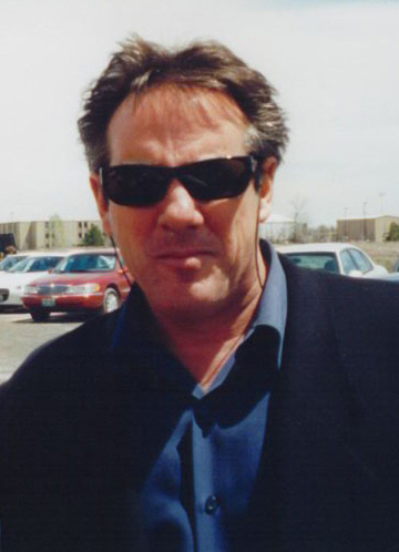 Cropped from 'Star Wars Celebration (the 1st) - me and producer Rick McCallum'